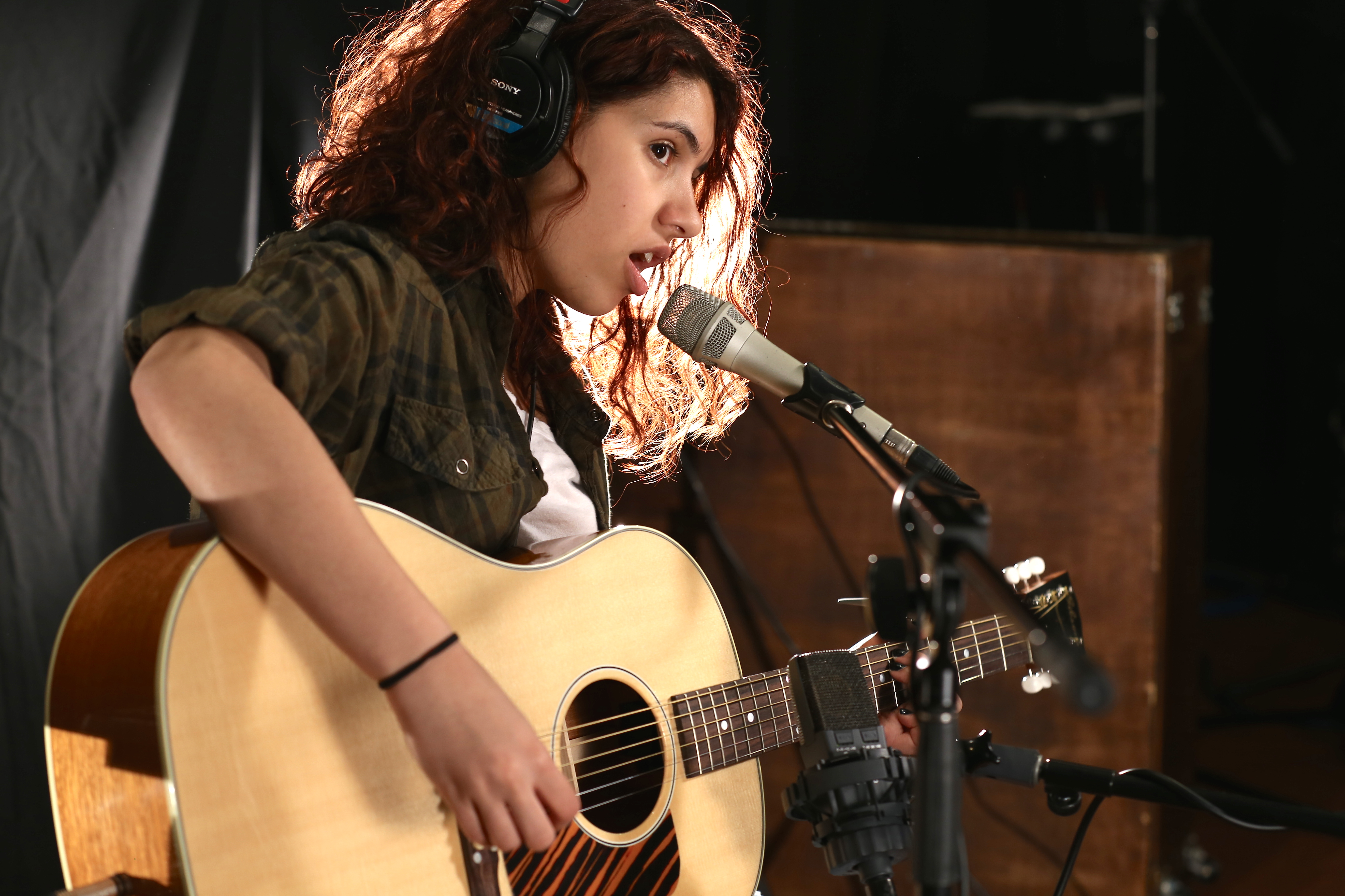 Alessia Cara performing live in WFUV' public radio's Studio A, 6.2.2015 Photographer: Sarah Burns